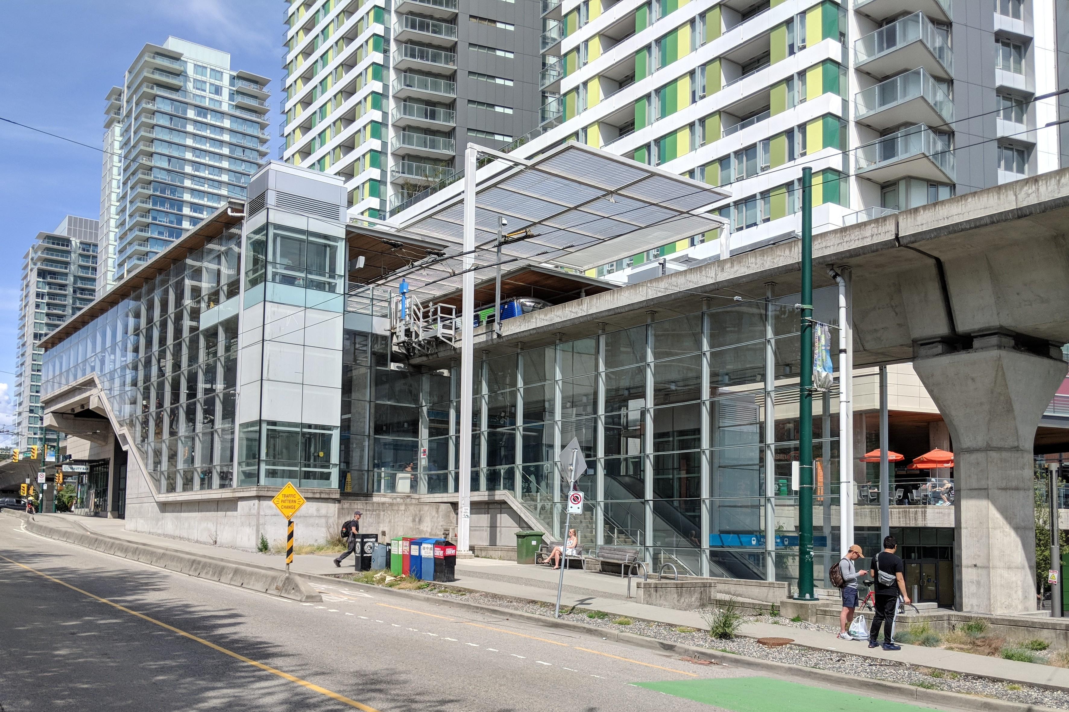 Marine Drive station viewed from the south. May 2019.